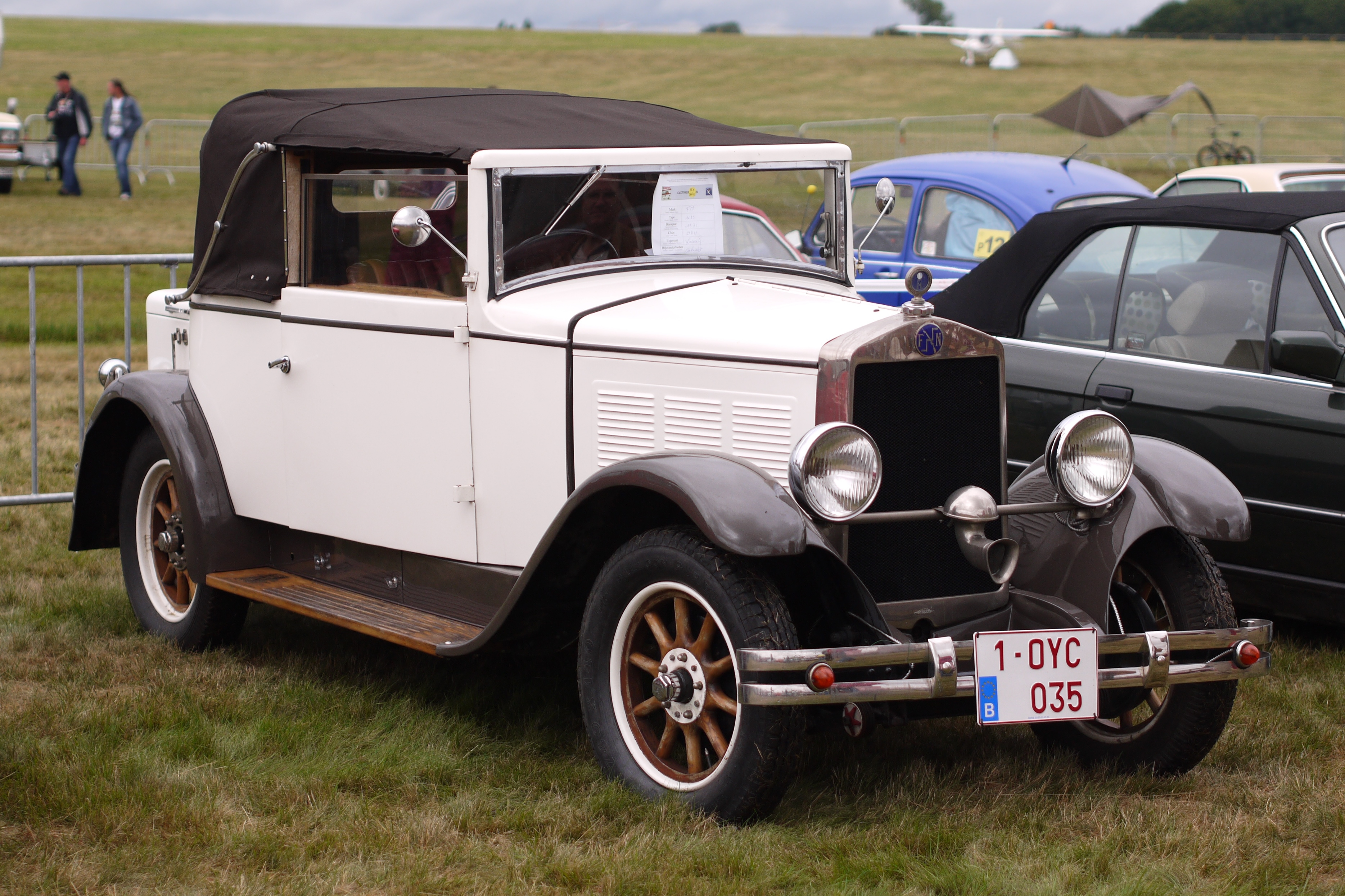 FN 1625cc Cabriolet, Schaffen Diest Fly-Drive 2013